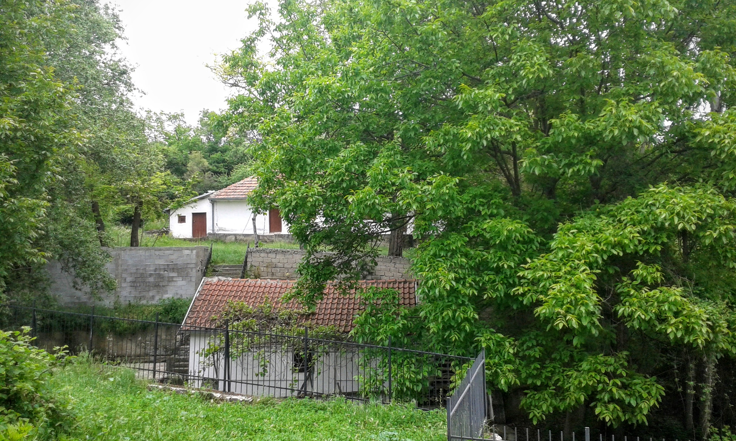 Church in the village Kučkovo